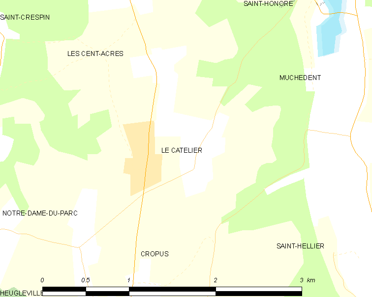 Map of French municipality Le Catelier